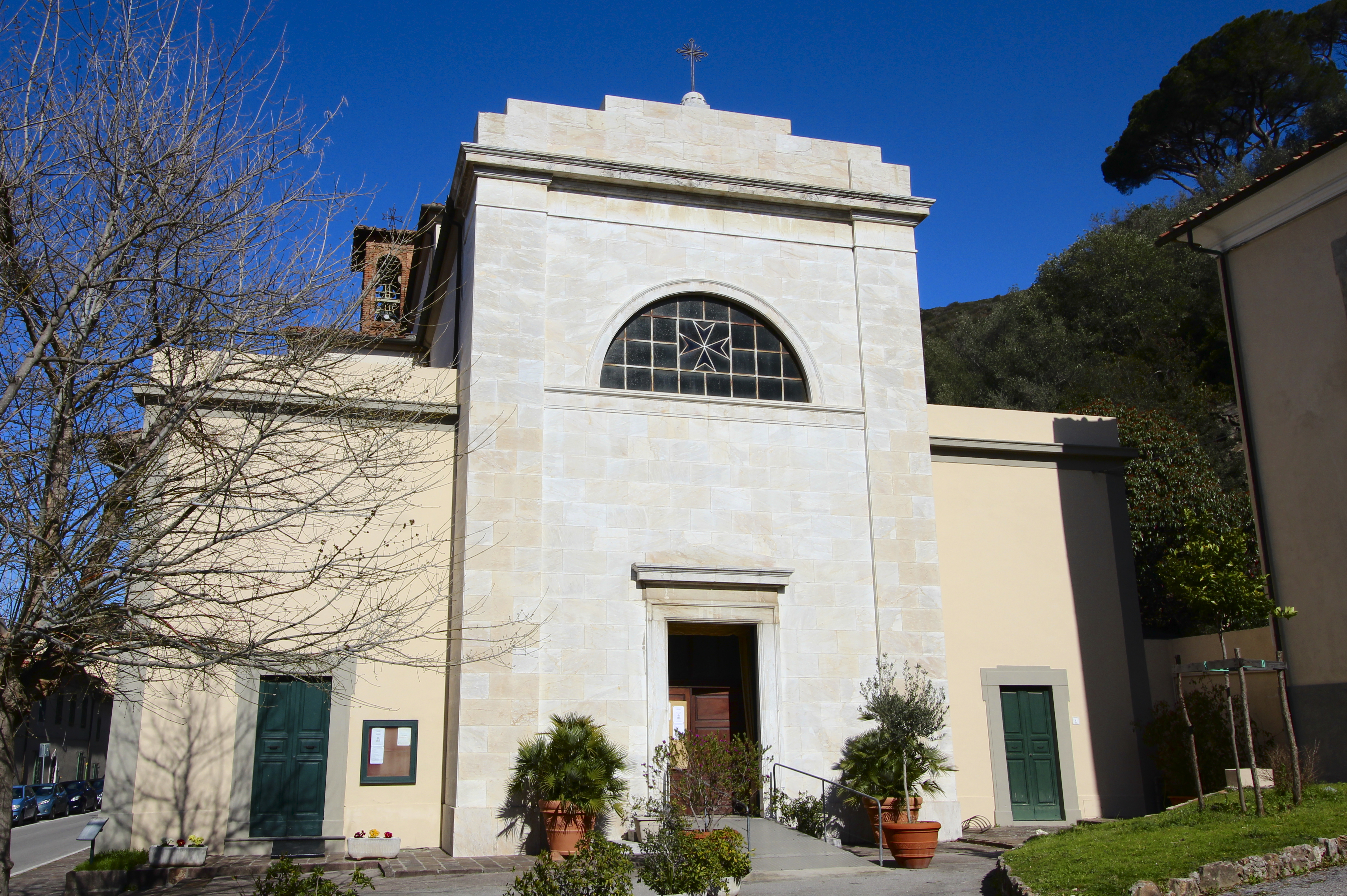 Church Chiesa dei San Ranieri e Luigi Gonzaga, San Giuliano Terme, Province of Pisa, Tuscany, Italy